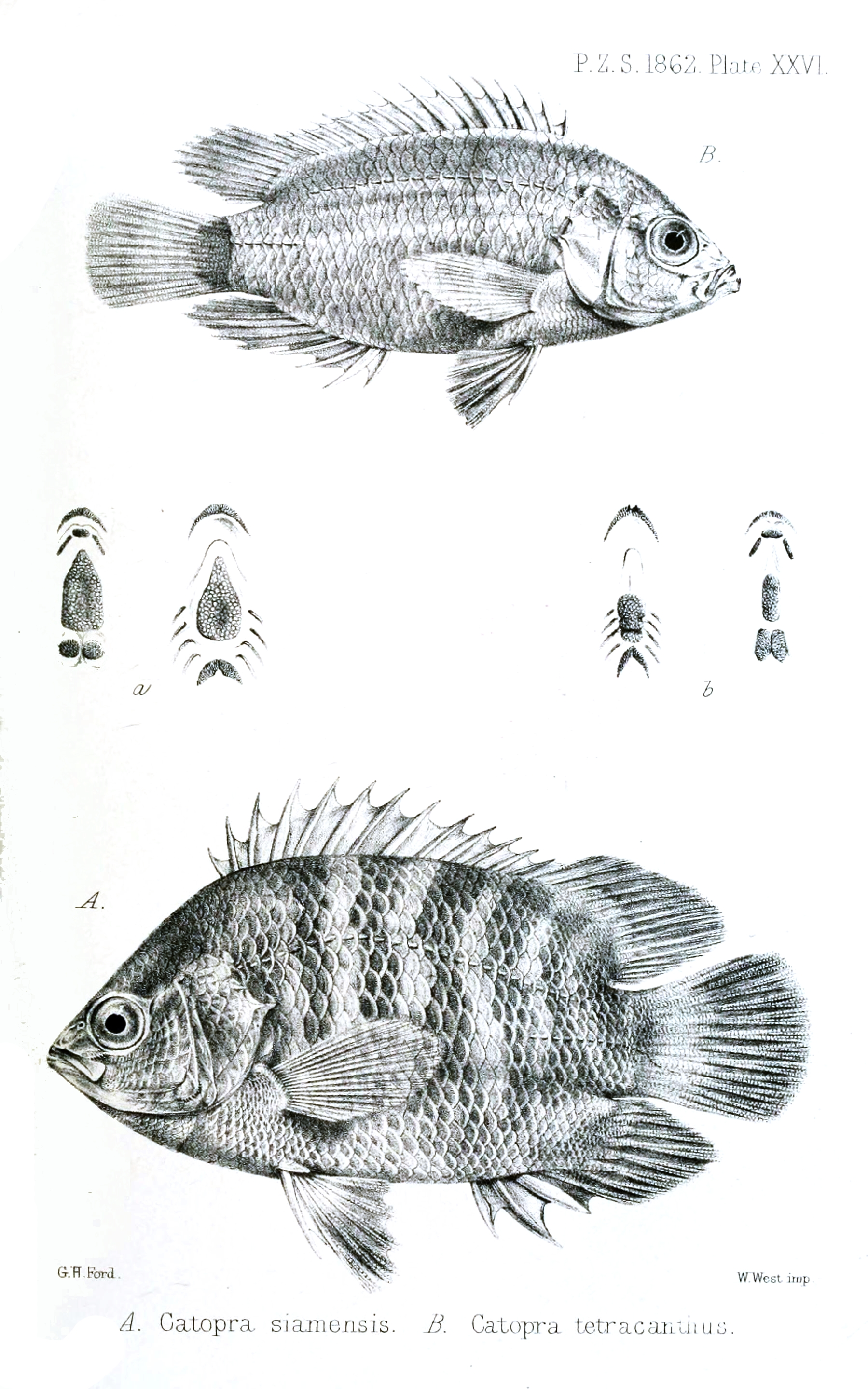 Malabar Leaffish from lateral (top) and inside of upper (rightmost) and lower (right center) jaws; Malayan Leaffish from lateral (bottom) and inside of upper (leftmost) and lower (left center) jaws